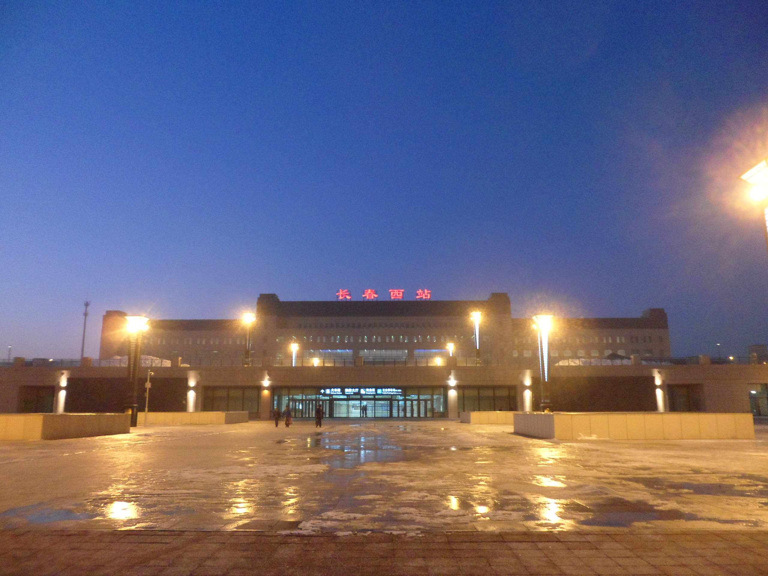 Changchun West Station, Changchun, China